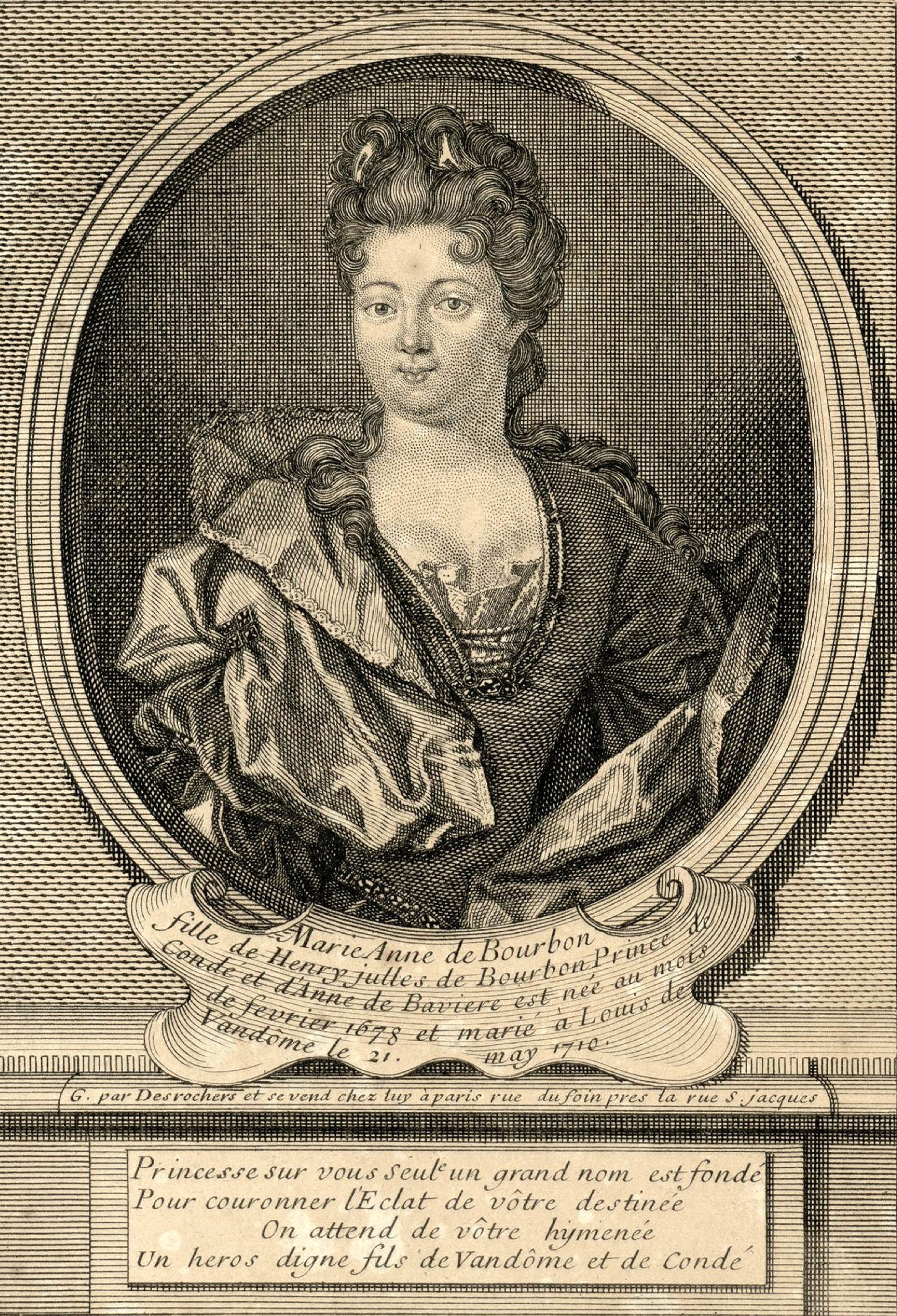 Portrait of Marie Anne de Bourbon (1678–1718) as the Duchess of Vendôme; she was a grand daughter of le Grand Condé